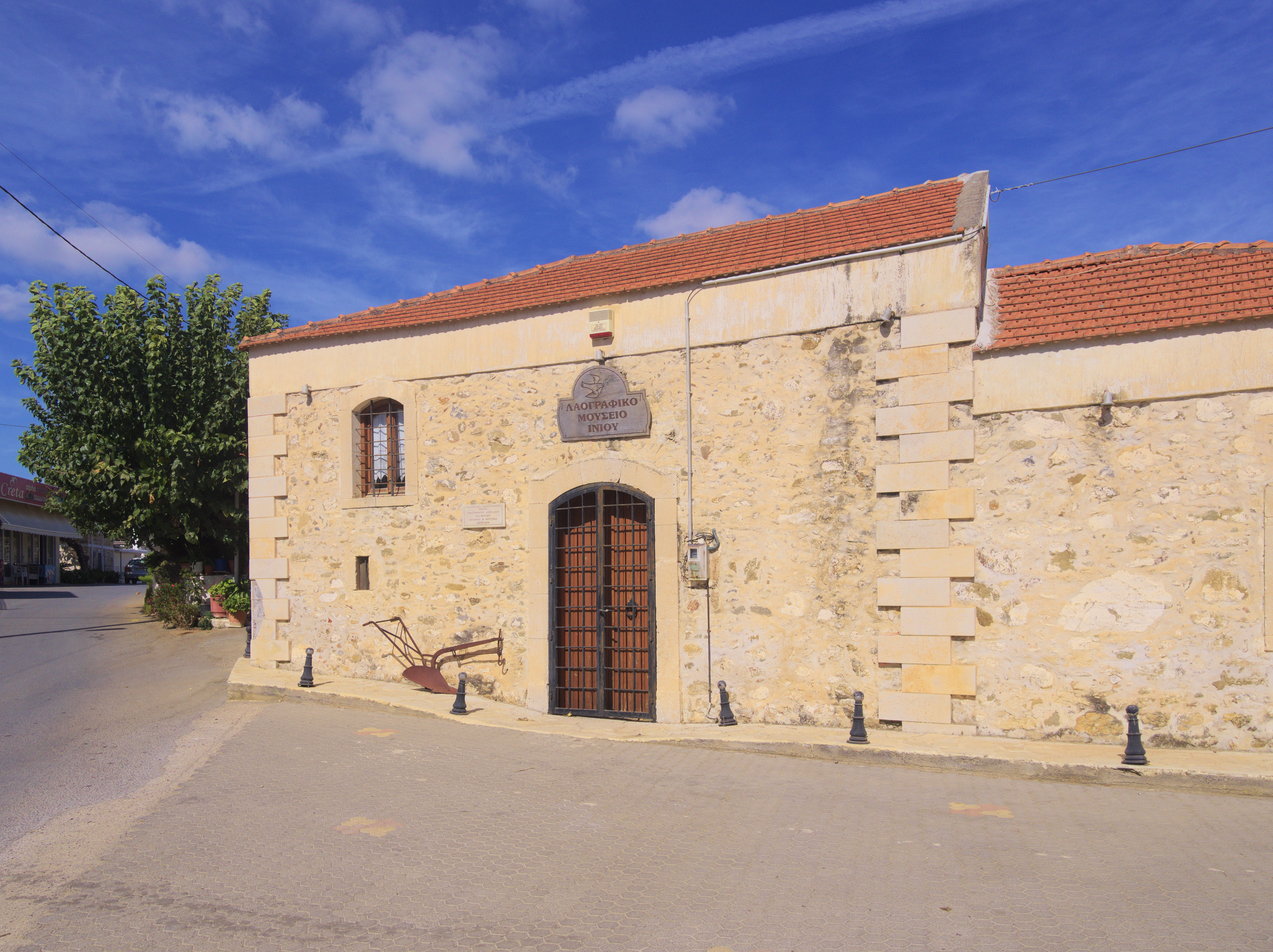 The folklore museum of Ini, in Minoa Pediada, Crete.